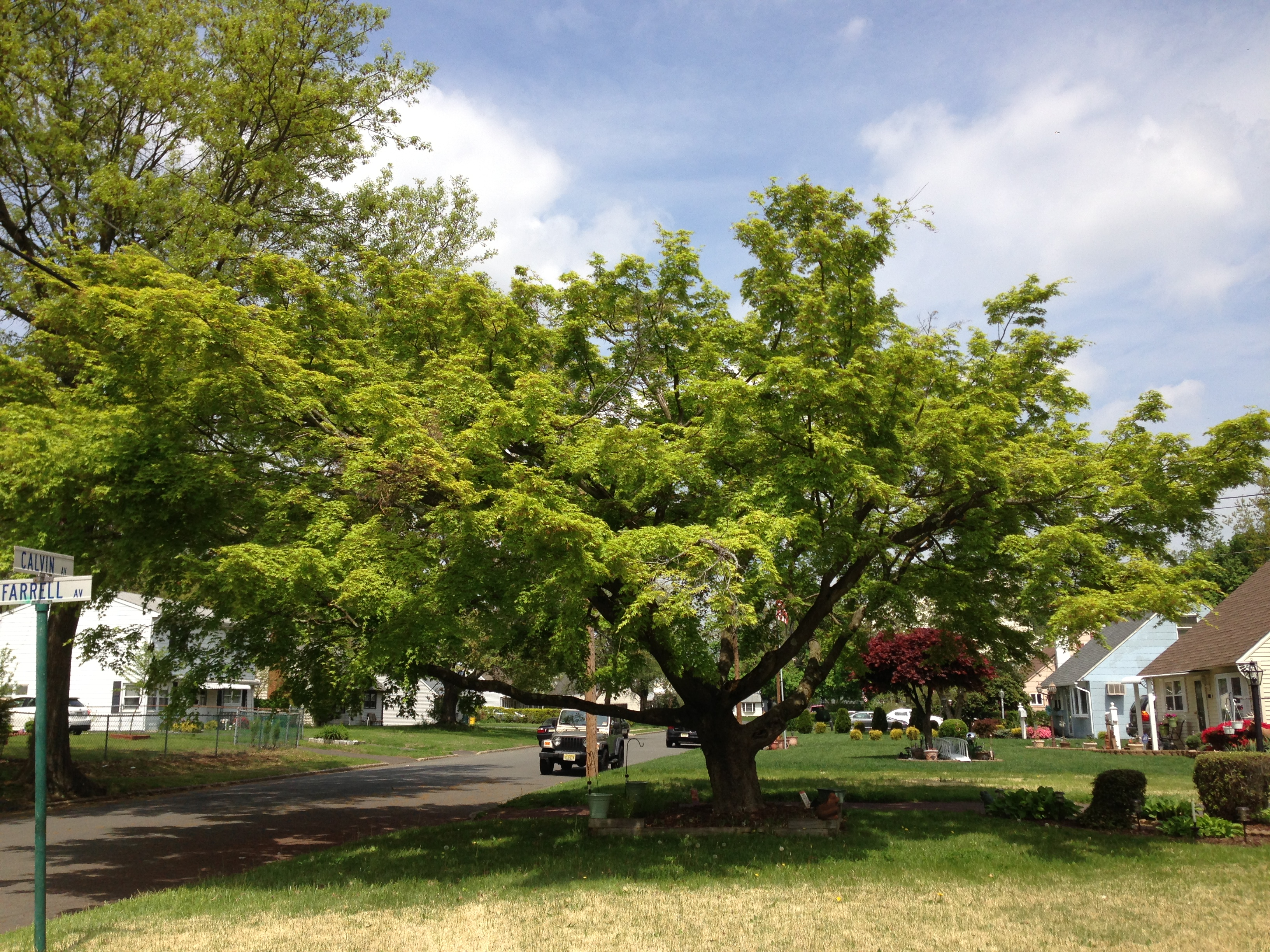 Japanese Maple on Calvin Avenue at Farrell Avenue in Ewing, New Jersey